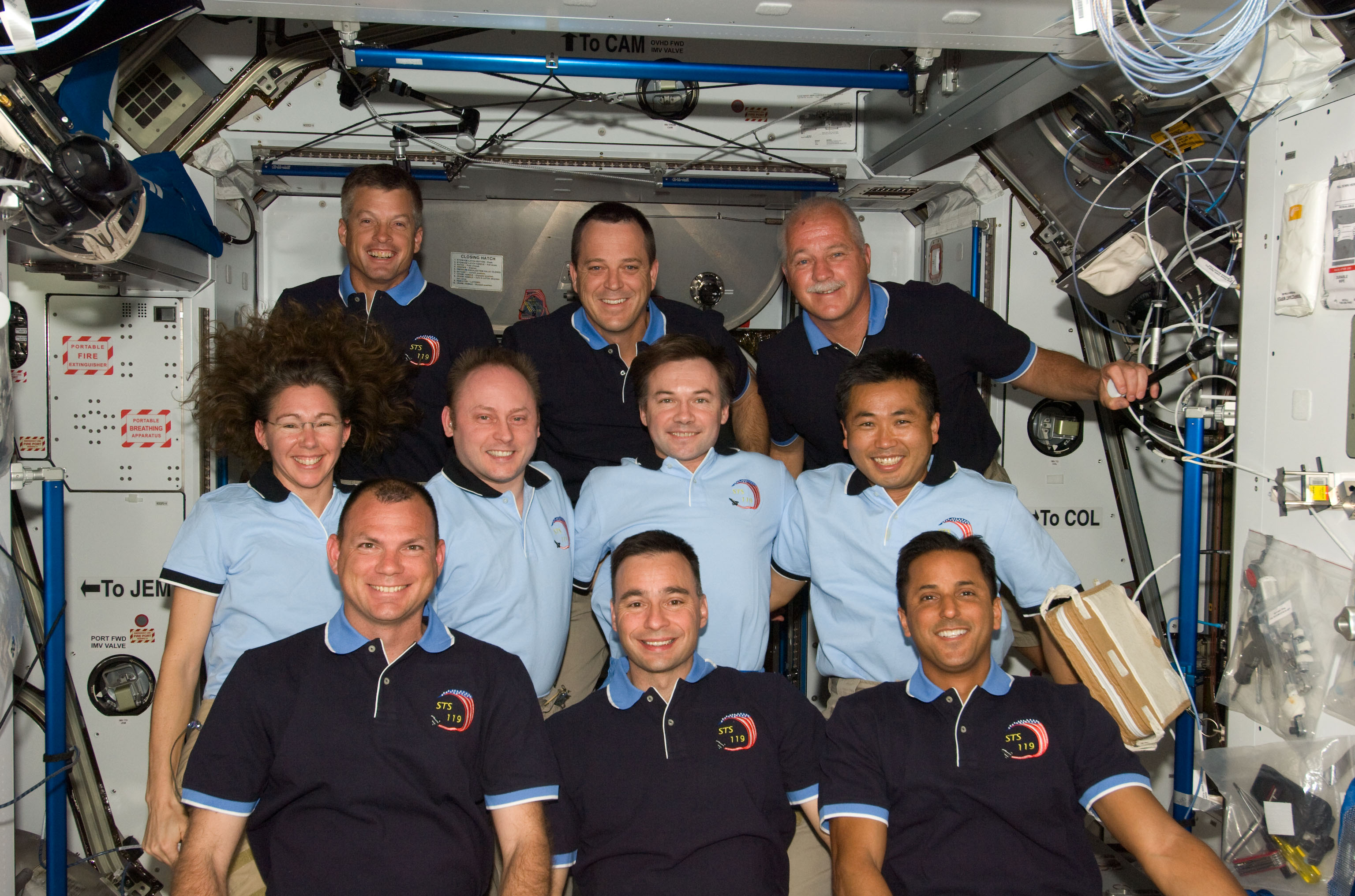 STS-119 and Expedition 18 crewmembers pose for a group photo following a joint news conference in the Harmony node of the International Space Station while Space Shuttle Discovery remains docked with the station. From the left (bottom row) are NASA astronauts Tony Antonelli, STS-119 pilot; Lee Archambault, STS-119 commander; and Joseph Acaba, STS-119 mission specialist. From the left (middle row) are NASA astronauts Sandra Magnus, STS-119 mission specialist; and Michael Fincke, Expedition 18 commander; along with cosmonaut Yury Lonchakov and Japan Aerospace Exploration Agency astronaut (JAXA) Koichi Wakata, both Expedition 18 flight engineers. From the left (top row) are NASA astronauts Steve Swanson, Richard Arnold and John Phillips, all STS-119 mission specialists. Magnus, who joined the station's Expedition 18 crew in November 2008, is being replaced by Wakata, who arrived at the station with the STS-119 crew.